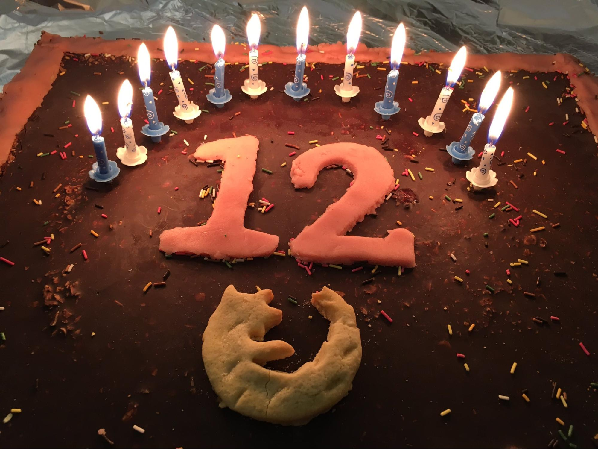 12th birthday cake for Firefox